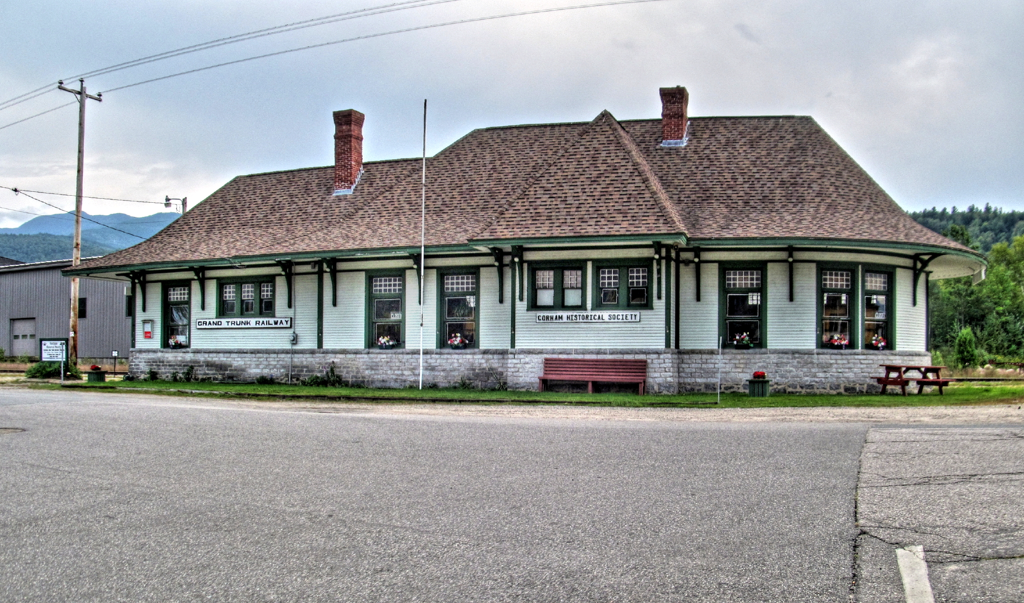 Front view of the Grand Trunk Railway station in Gorham, New Hampshire